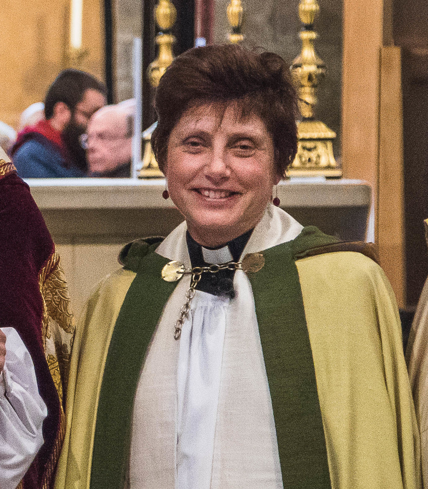 The Venerable Dr Christopher Cunliffe, Archdeacon of Derby; the Rt Revd Jan McFarlane, Bishop of Repton; the Rt Revd Dr Alastair Redfern, Bishop of Derby; the Venerable Carol Coslett, Archdeacon of Chesterfield and the Very Revd Stephen Hance, Dean of Derby. Photograph taken at the Collation and Commissioning Service for the eighth Archdeacon of Chesterfield at the parish church of Chesterfield, St Mary and All Saints - the Crooked Spire - on Saturday, 10 March 2018